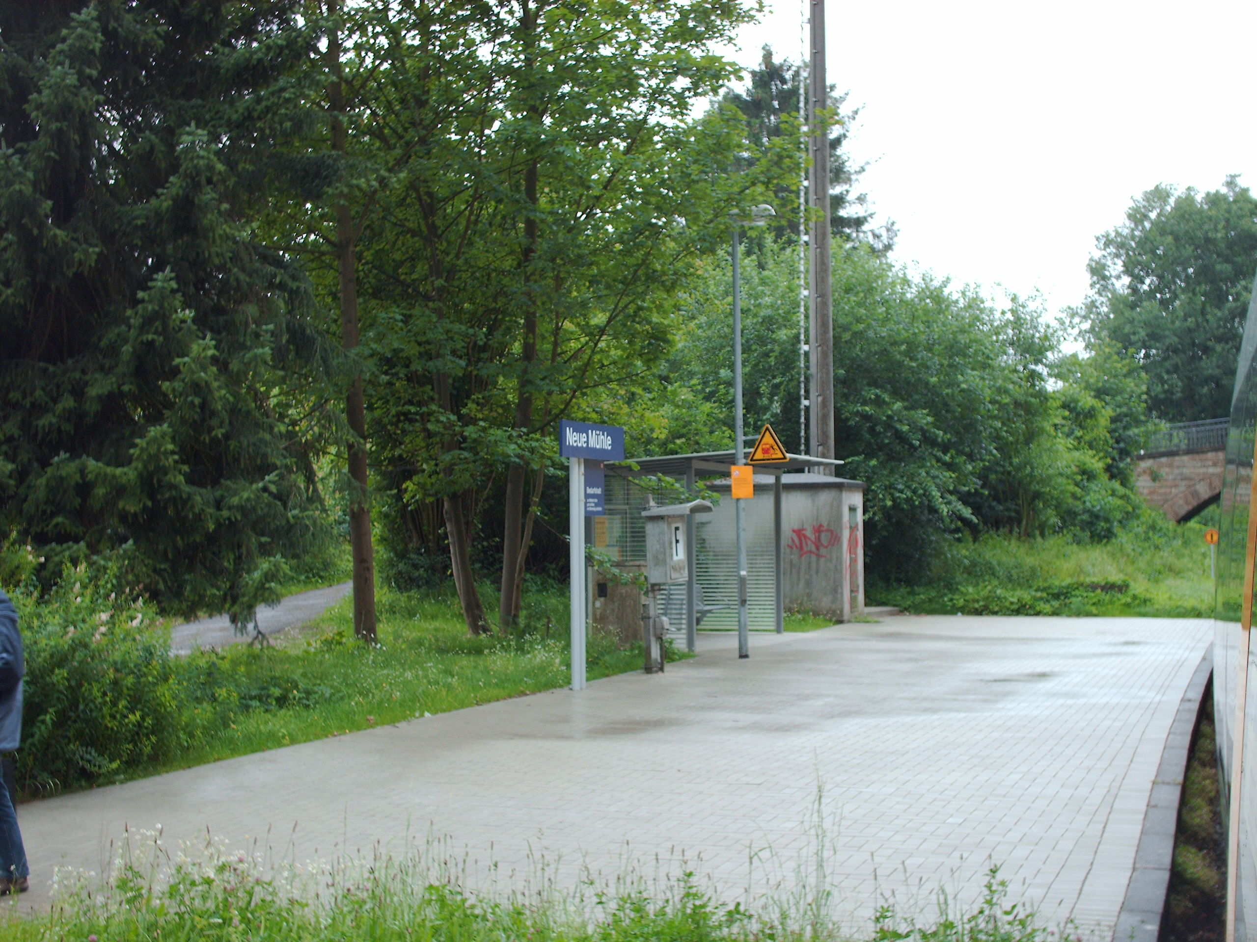 Mesch, Neue Mühle station, Rödinghausen, Germany check usage